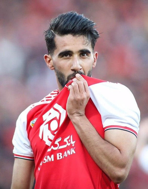 Persepolis F.C. v Esteghlal F.C., 6 February 2020.